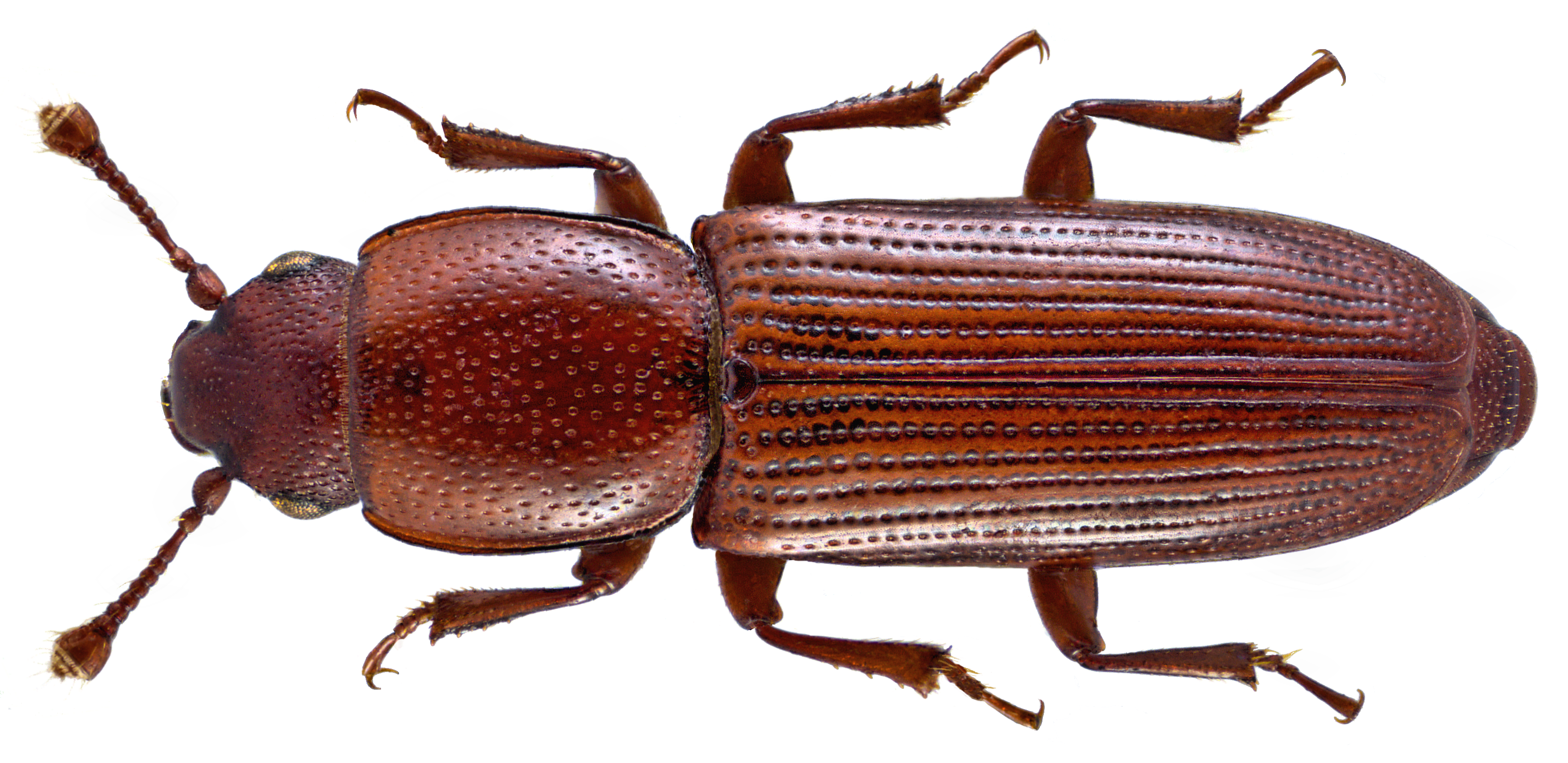 Family: Monotomidae Size: 4,0 mm (3,5-4,0 mm) Origin: Europe Ecology: among coniferous wood bark Location: Germany, Bavaria, Upper Franconia, Kulmbach leg.det. U.Schmidt, 23.V.1984 Photo: U.Schmidt, 2014